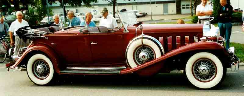 Cadillac Series 452-B Dual Cowl Phaeton 1932